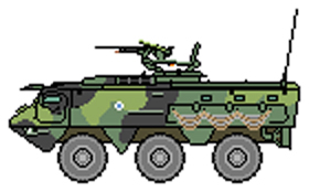 Panssari-Sisu, XA-185 kuljetuspanssariajoneuvo (personnel carrier) with a 12.7 Itkk NSV machine gun mounted on the top.